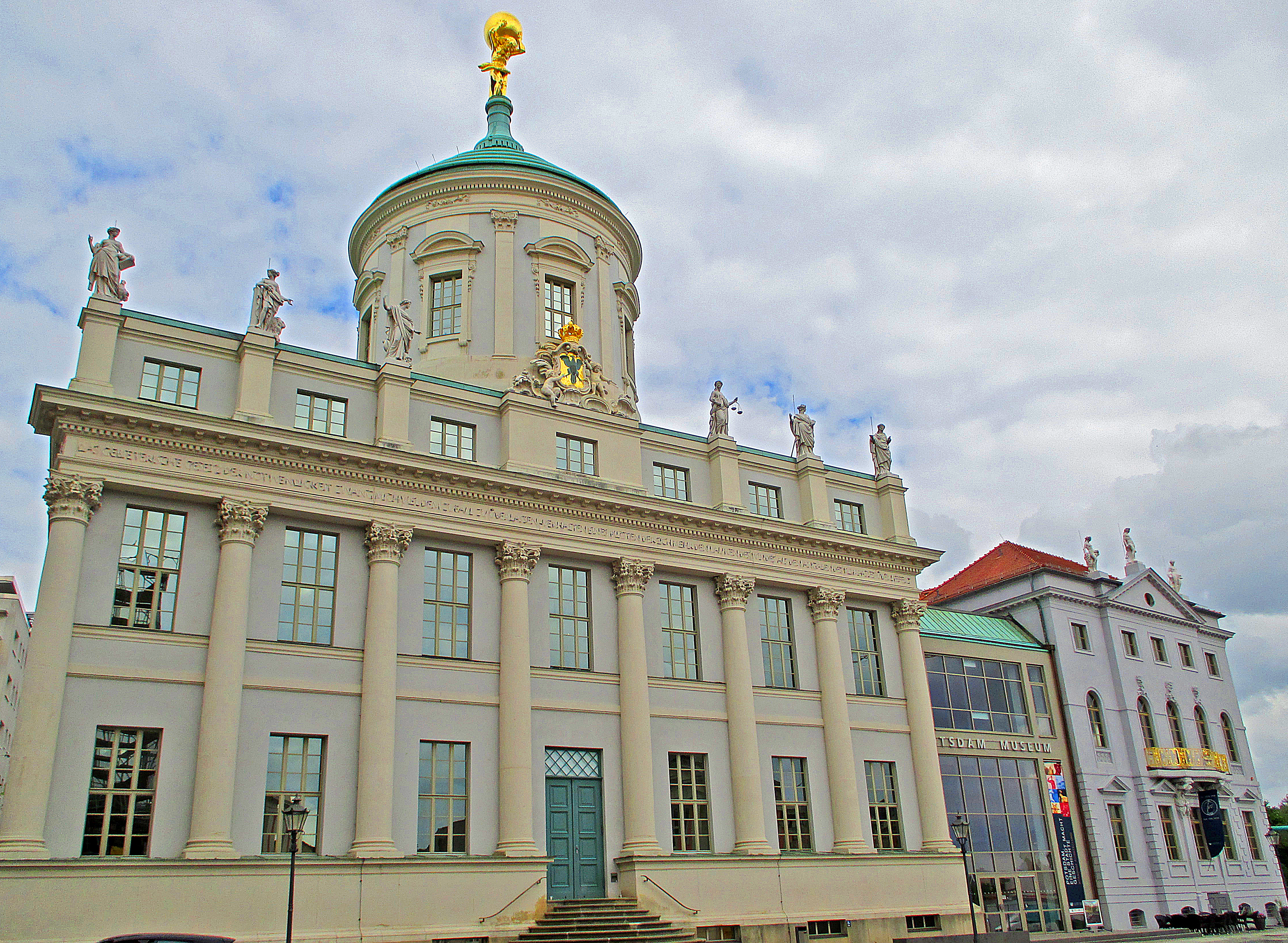 The Altes Rathaus and the Knobelsdorffhaus in Potsdam.